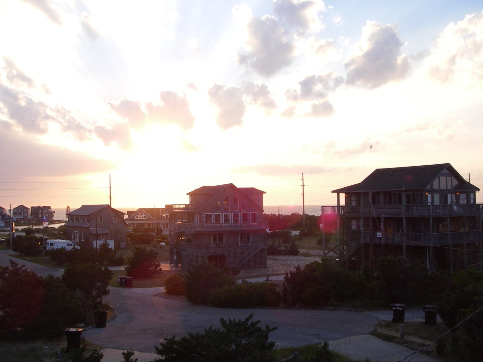 Image by Yeti Hunter Sunset over northern outskirts of Avon, North Carolina, USA, May 2006